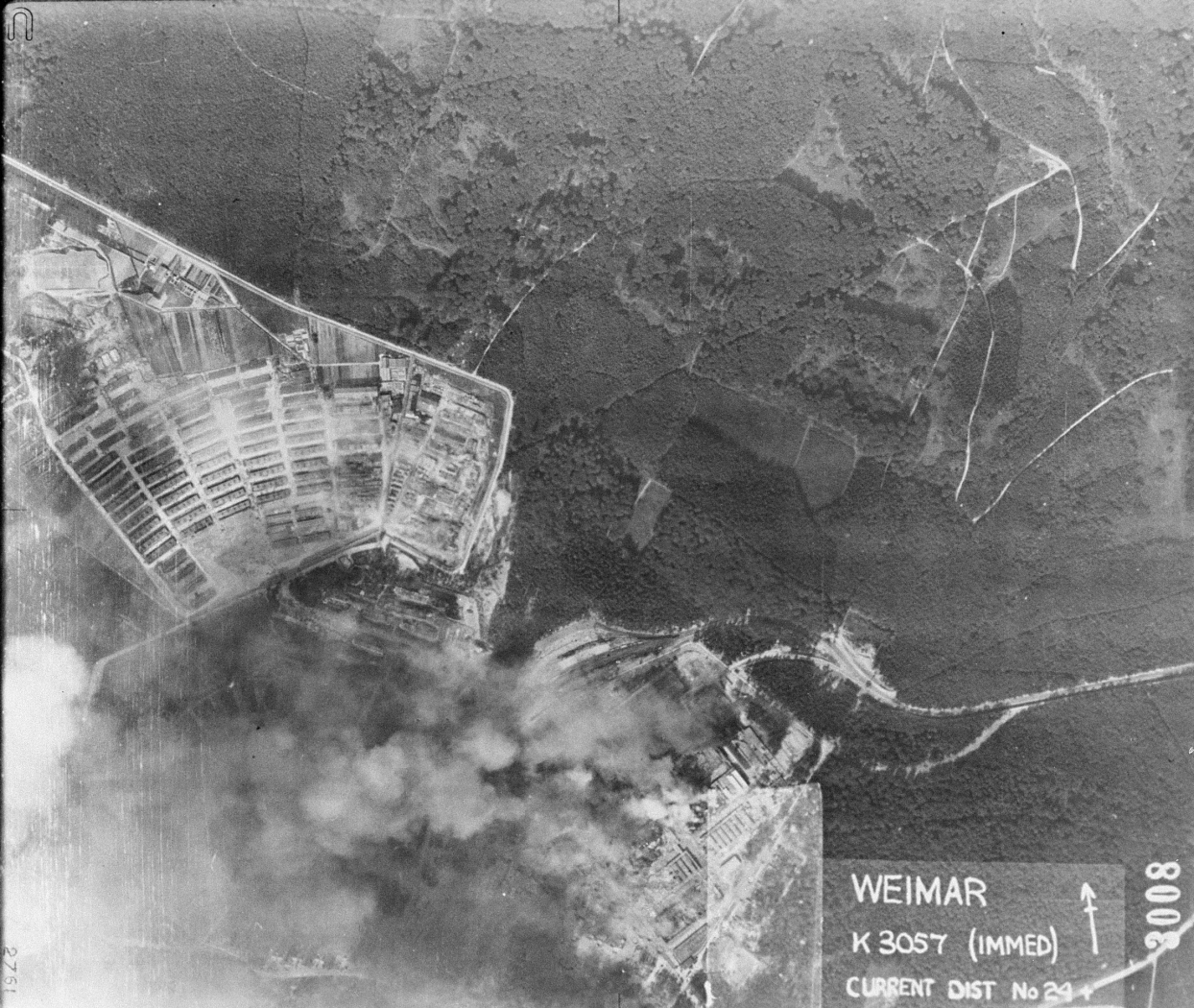 An aerial photograph of Buchenwald concentration camp showing the destruction of the munitions factory and storage area of the camp by American bombers.